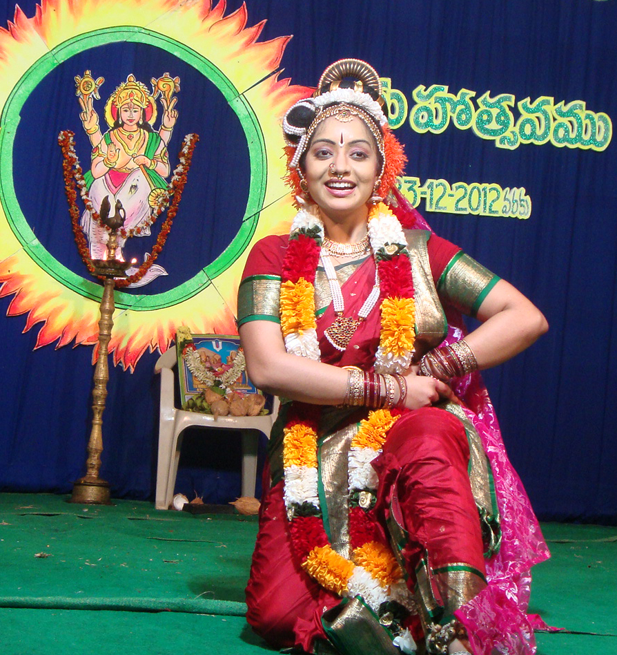 Sahiti Ravali, a Kuchipudi dancer from Visakhapatnam performing on stage at Bhadrachalam in 2012